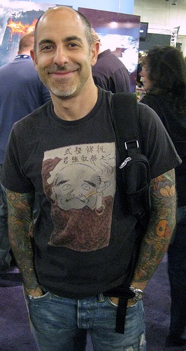 David S. Goyer taken at the Comic-Con 2008